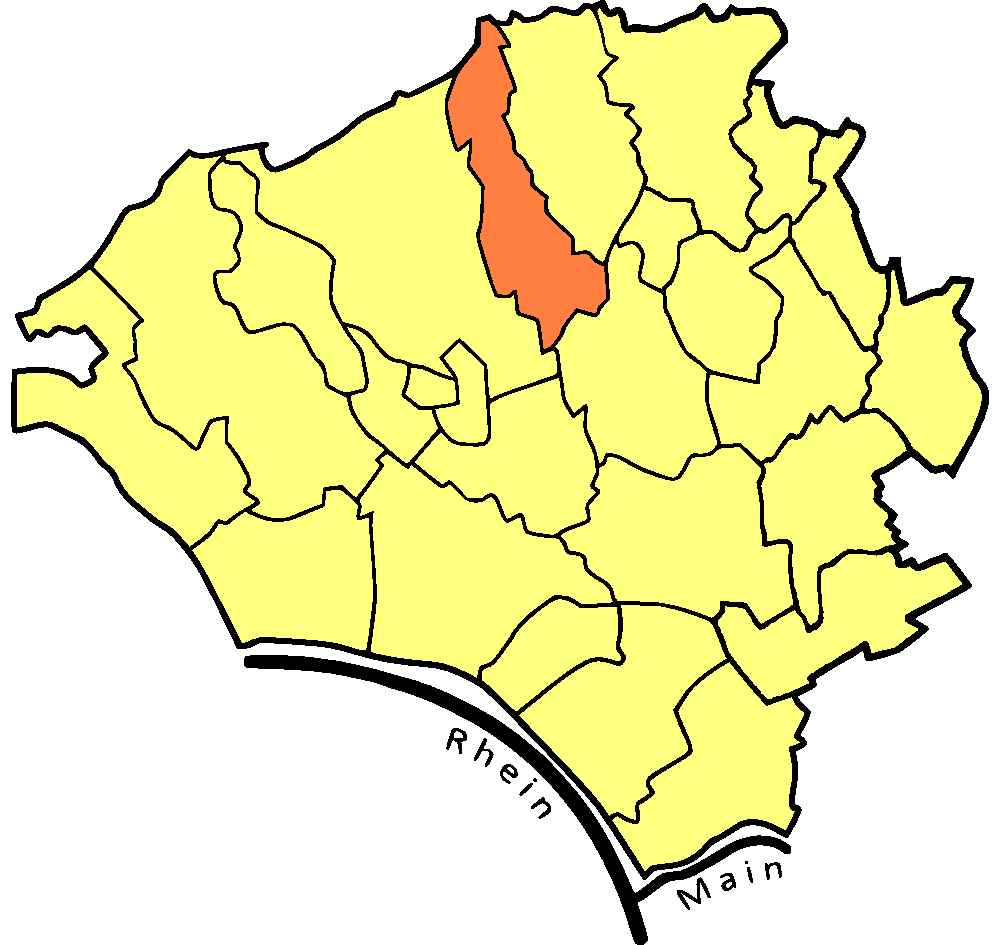 Map of Wiesbaden showing the location of Sonnenberg